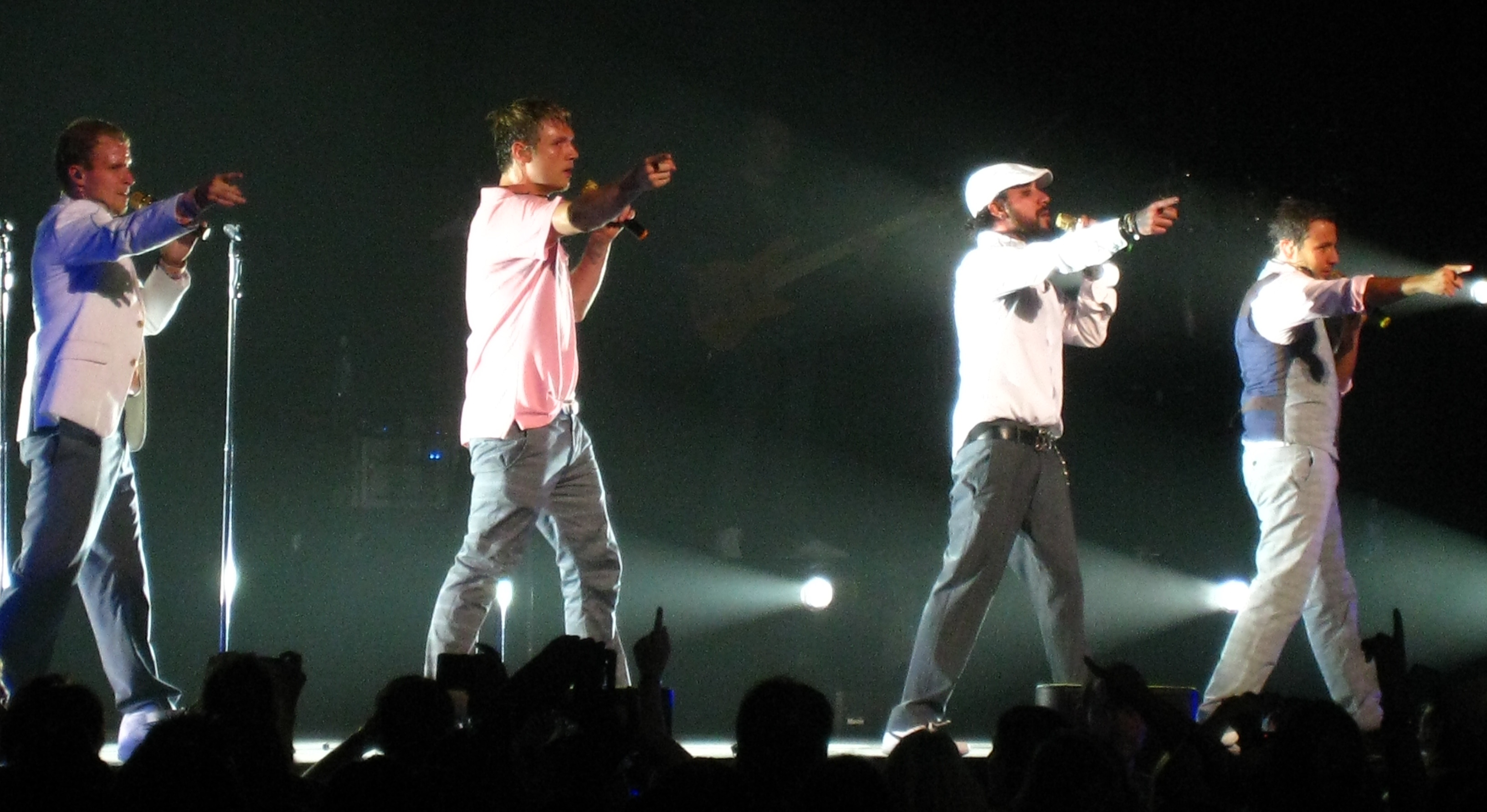 Taken at the Backstreet Boys (BSB) 'Unbreakable Tour' Concert @ Bell Centre, Montreal on 5th August, 2008. From Left To Right : Brian Littrell, Nick Carter, AJ McLean and Howie Dorough. Backstreet Boys is a Grammy nominated pop group that rose to popularity in the late 90's. As per Wikipedia, "They have had 13 Top 40 hits on the Billboard Hot 100 and have approximately sold 100 million records, the best selling boy band of all time, and World's Biggest Money Makers (Concerts and Album Sales) 1997-2005: #1 ($533.1 million). Two of their albums Millennium and Backstreet Boys are listed #13 and #27 respectively,[4] in the list of 150 Best Selling Albums.". Originally, the group consisted of five members - Nick Carter, Howie Dorough, Brian Littrell, Kevin Richardson, and AJ McLean.